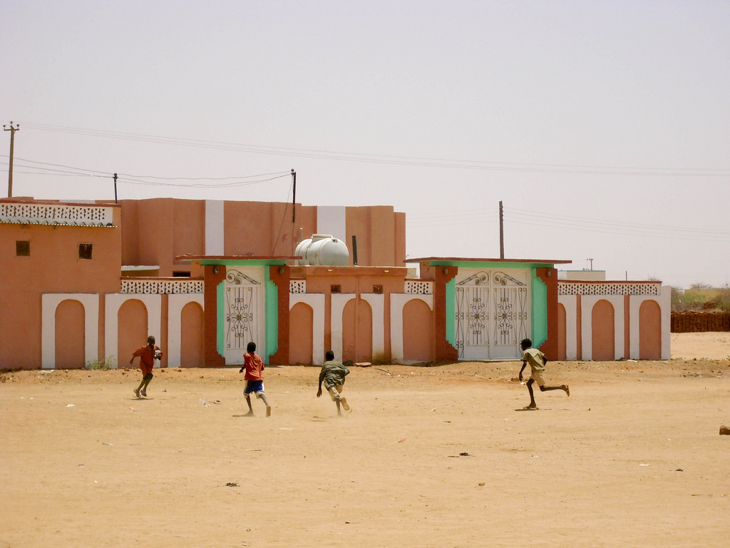 The town of Al-Fashir in North Darfur state, Sudan.